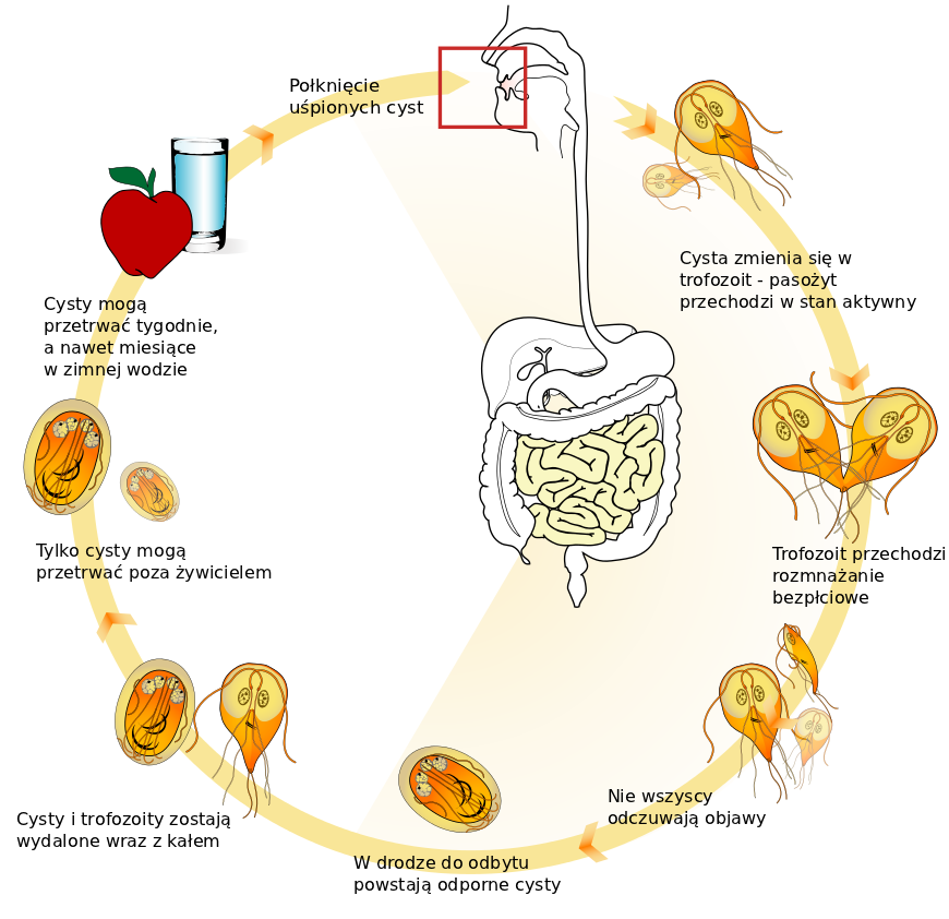 Life cycle of the parasite Giardia lamblia.